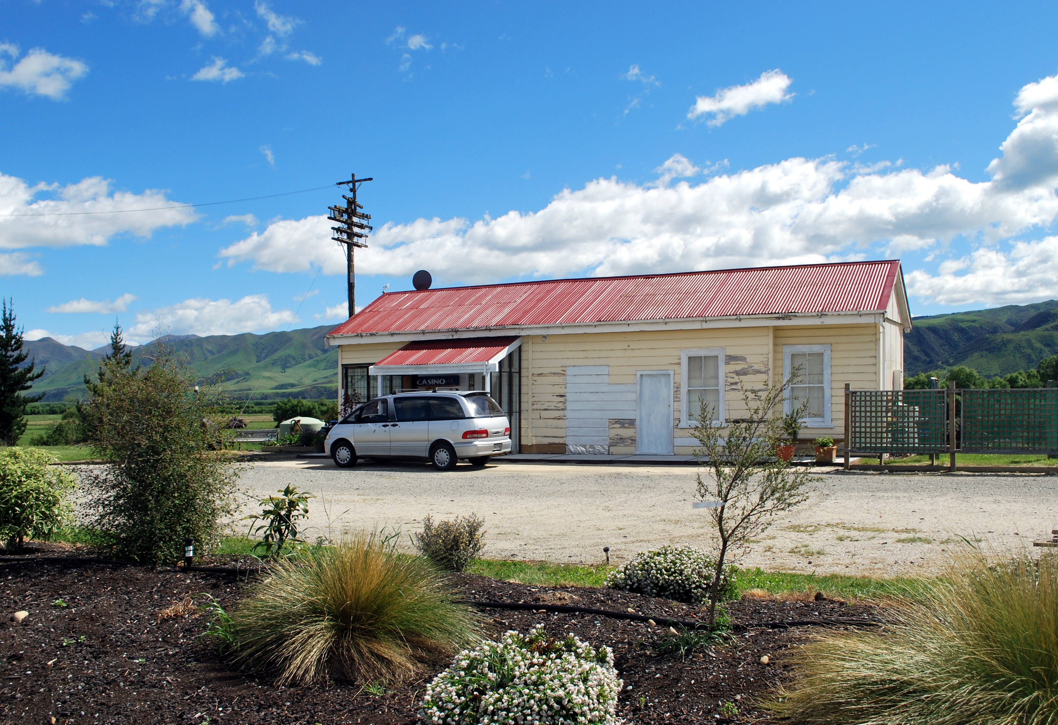 Former railway station in Duntroon, New Zealand